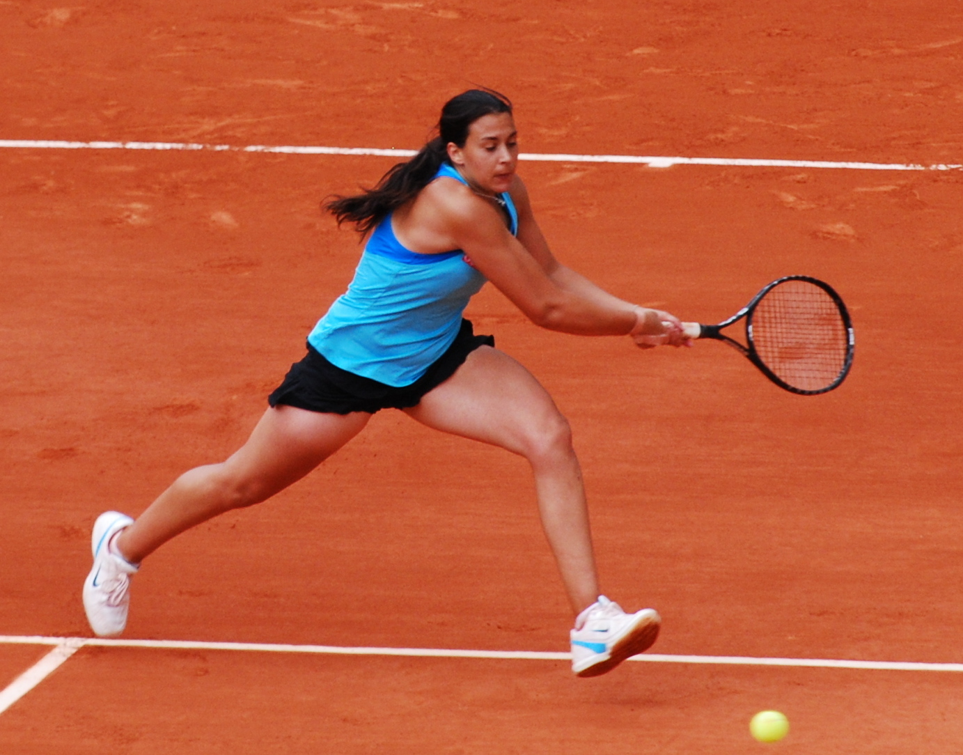 Marion Bartoli during her 3rd round match with Julia Görges, Roland Garros 2011.